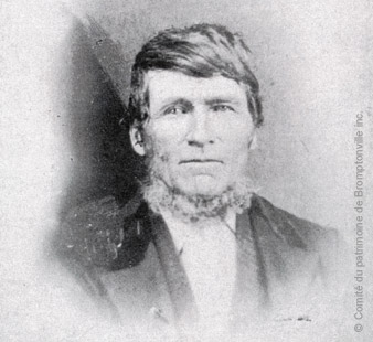 Cyrus Sullivan Clark, lumber baron, c. 1875